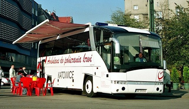 Solaris Vacanza 12 02-V1/003 bus (blood donation) in Katowice, Poland. Built 2002, RCKiK Katowice operator.